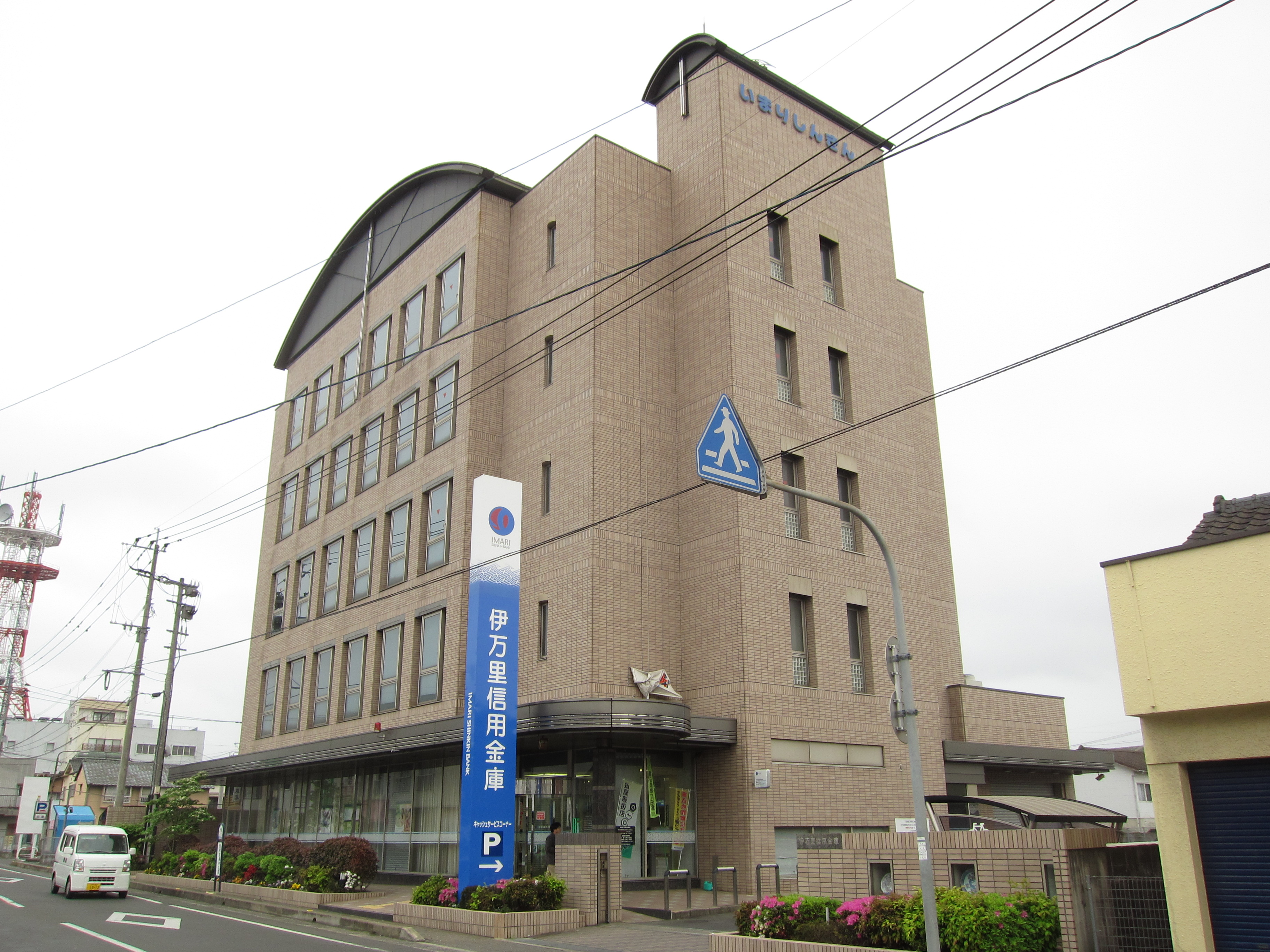 Imari Shinkin Bank